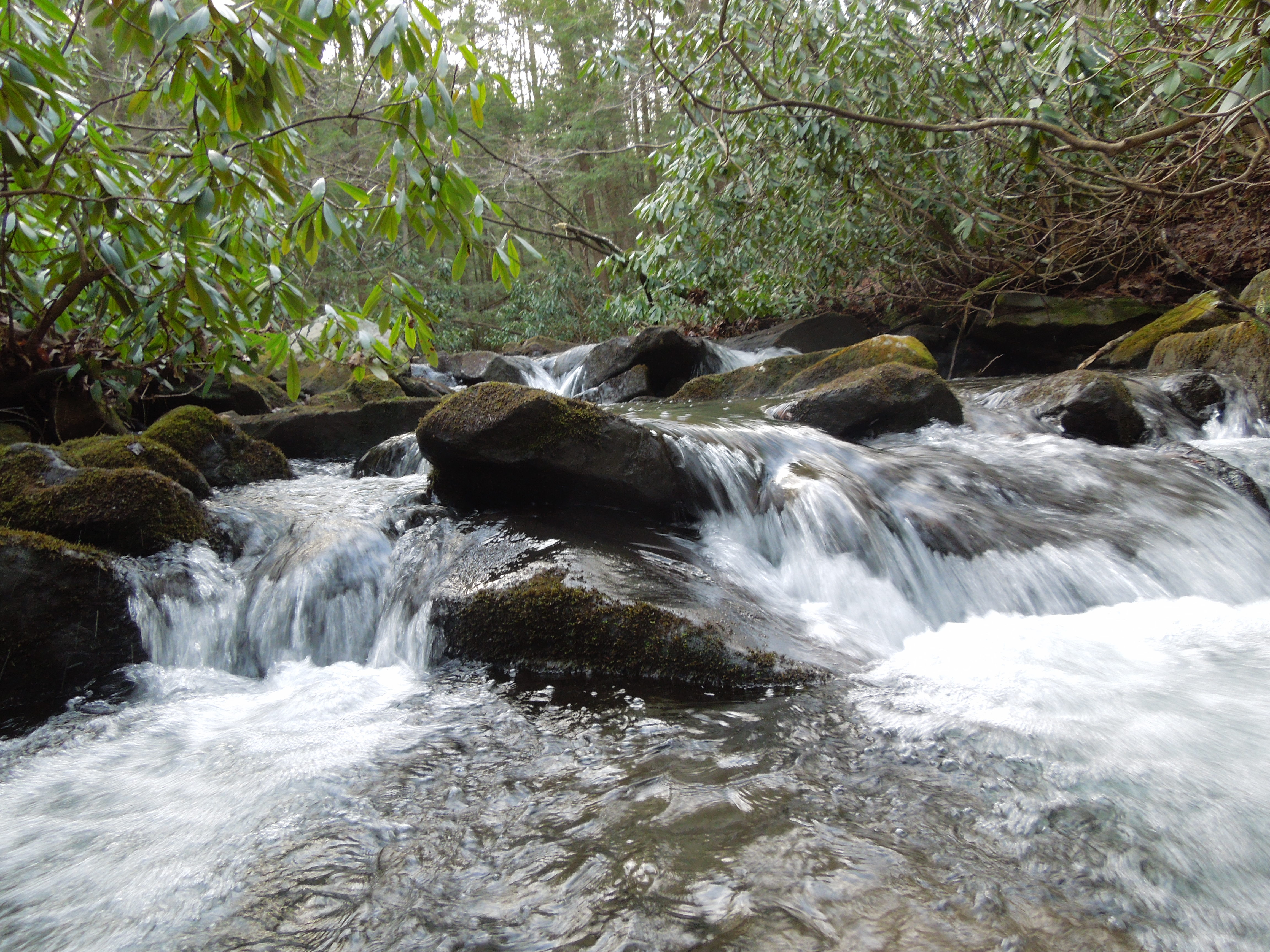 One of many water falls found along Quebec Run in Quebec Run Wild Area.